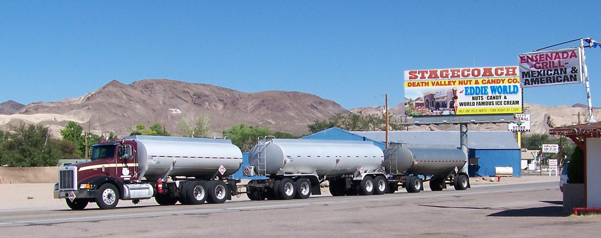 Gasoline truck and trailers.